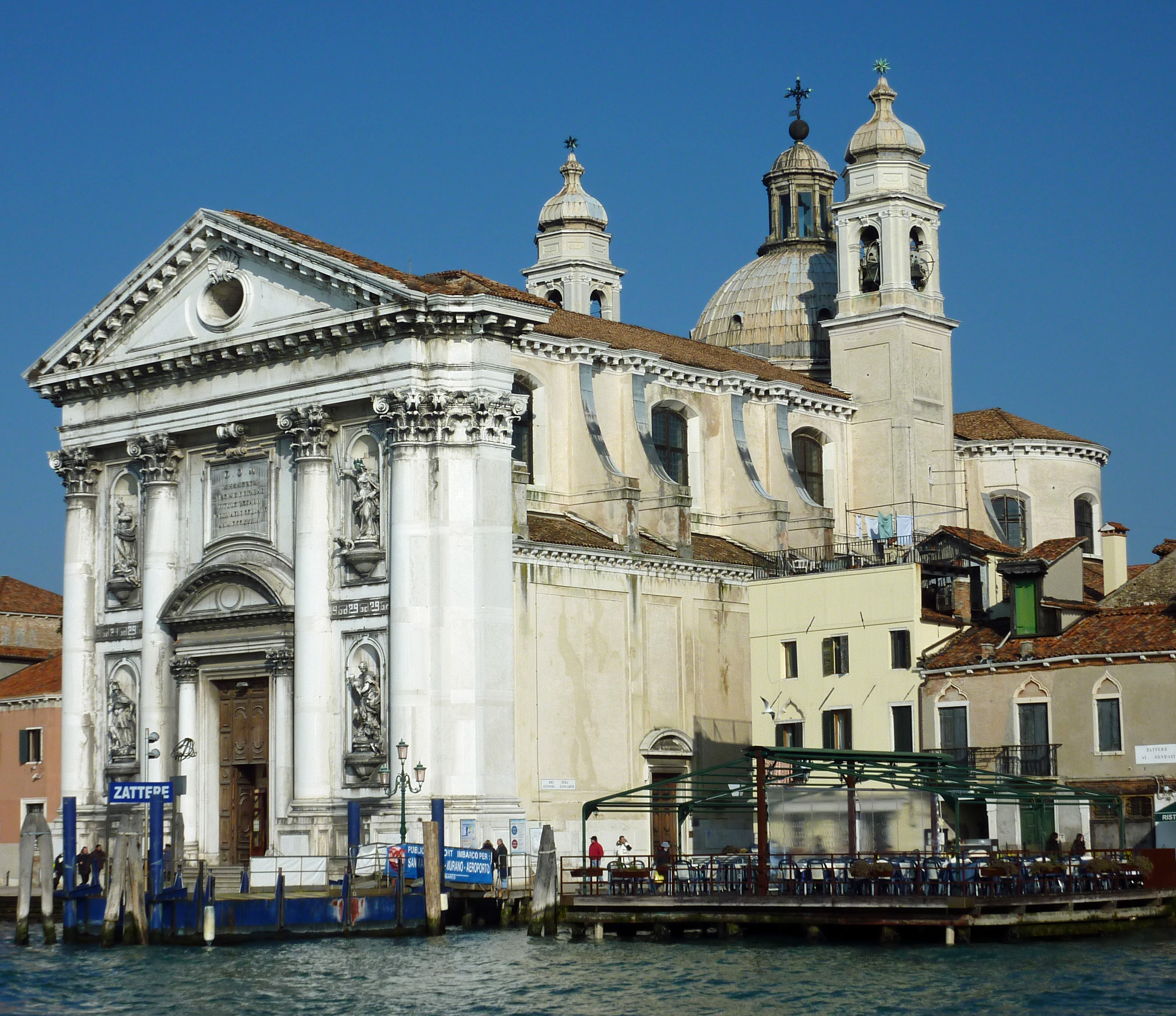 Large church near the Zattere vaporetti stop